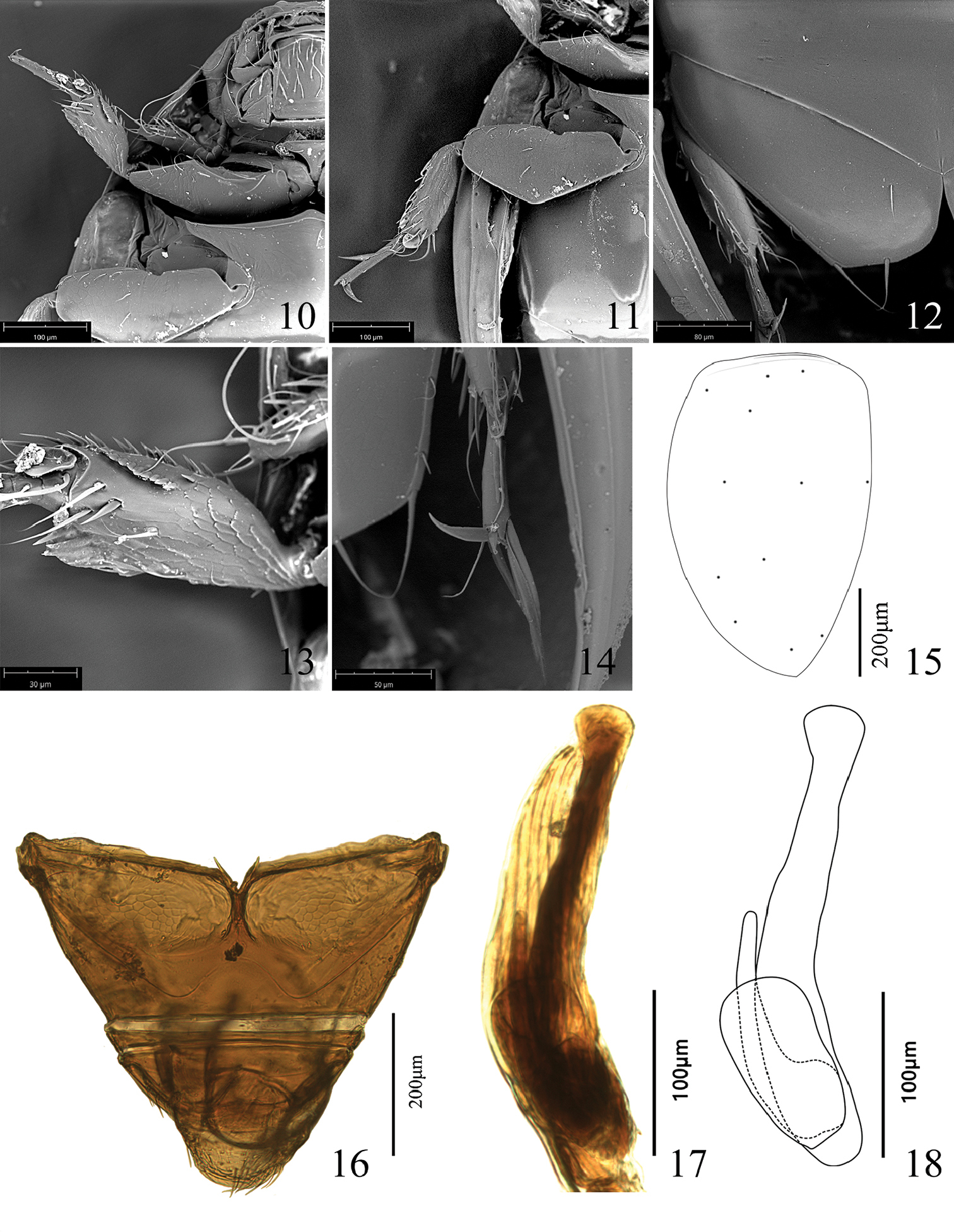 Figures 10–18; Sphaerius minutus sp. n. 10 front leg 11 mid leg 12 hind leg 13 protibia 14 metatarsus 15 asperities on left elytron 16 abdomen 17 lateral view of male genitalia 18 illustration of male genitalia (lateral view).